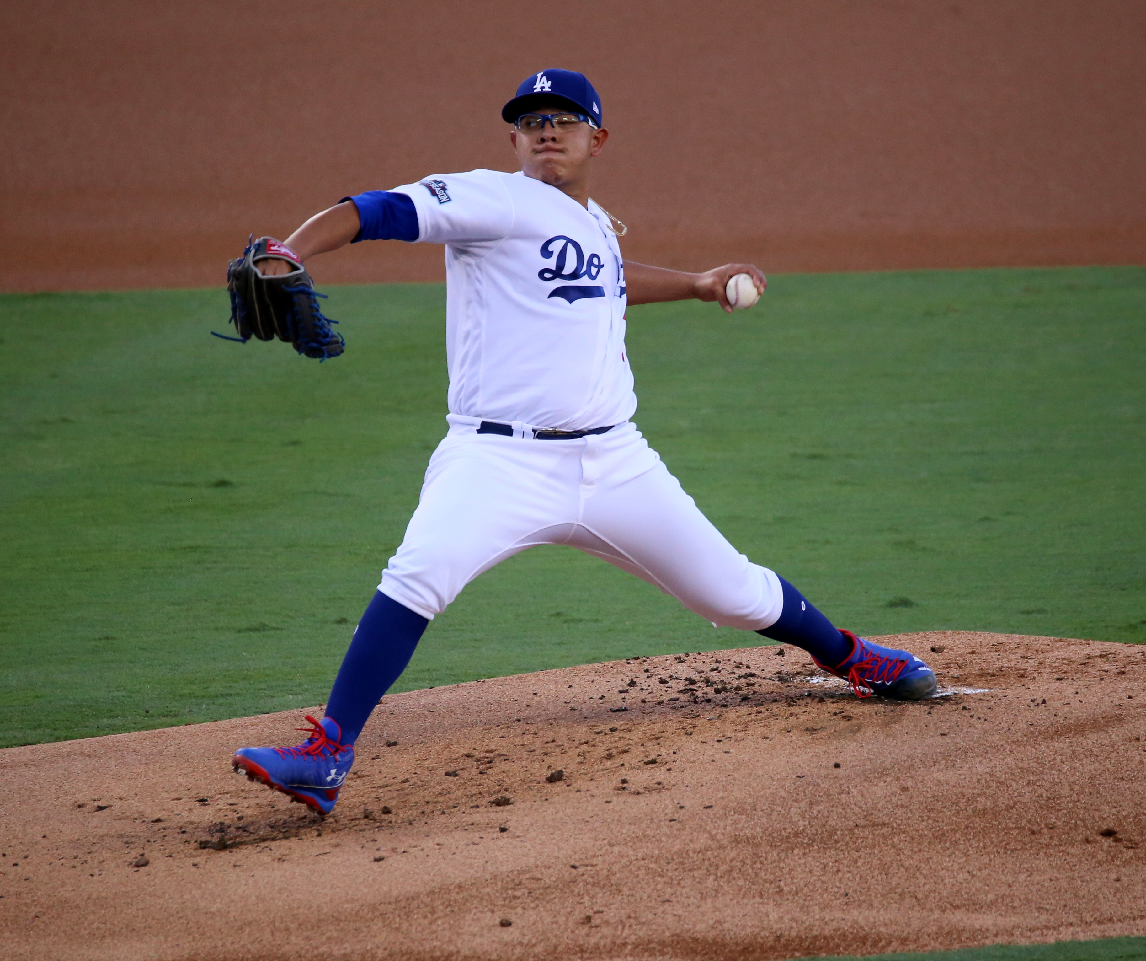 Dodgers rookie Julio Urias delivers a pitch in the first inning of NLCS Game 4.